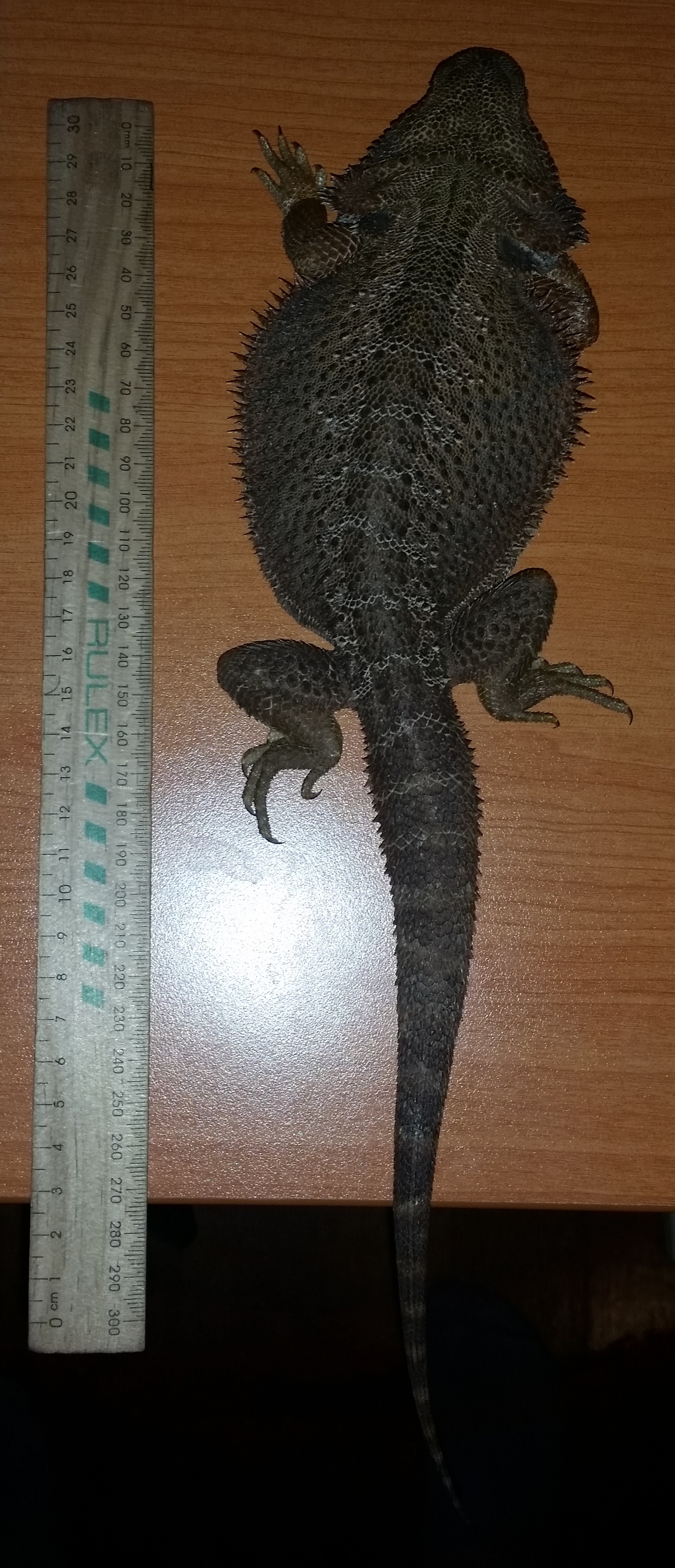 An adult Bearded Dragon measuring over thirty centimeters.